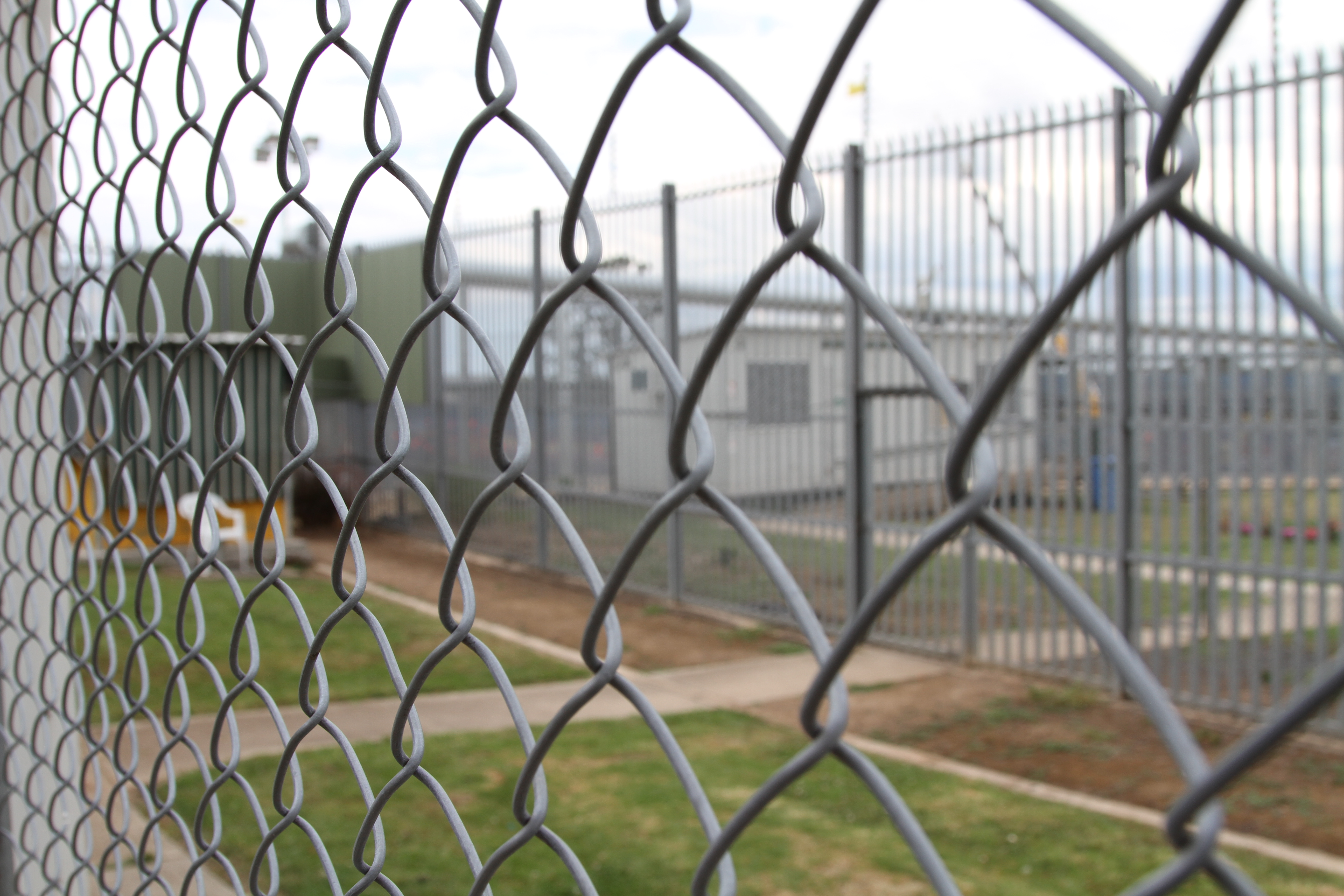 Villawood IDC